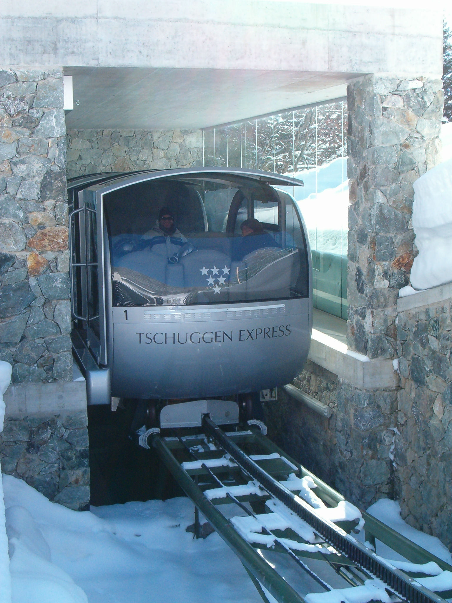 Tschuggen Express Railway, Tschuggen Grand Hotel, Arosa/Switzerland